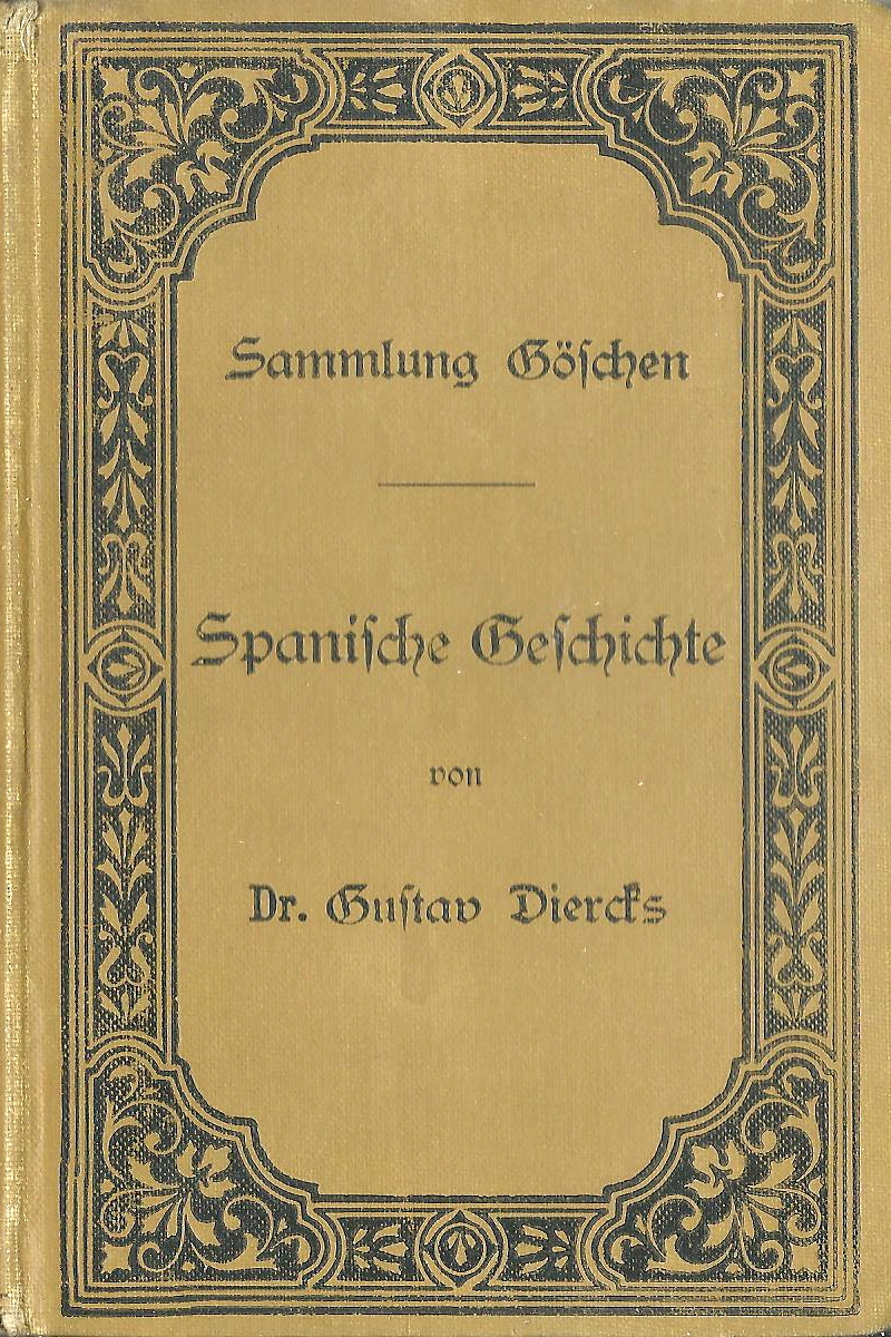 Front cover of Gustav Diercks' book Spanische Geschichte (Spanish history), Volume 266 of the Goeschen collection